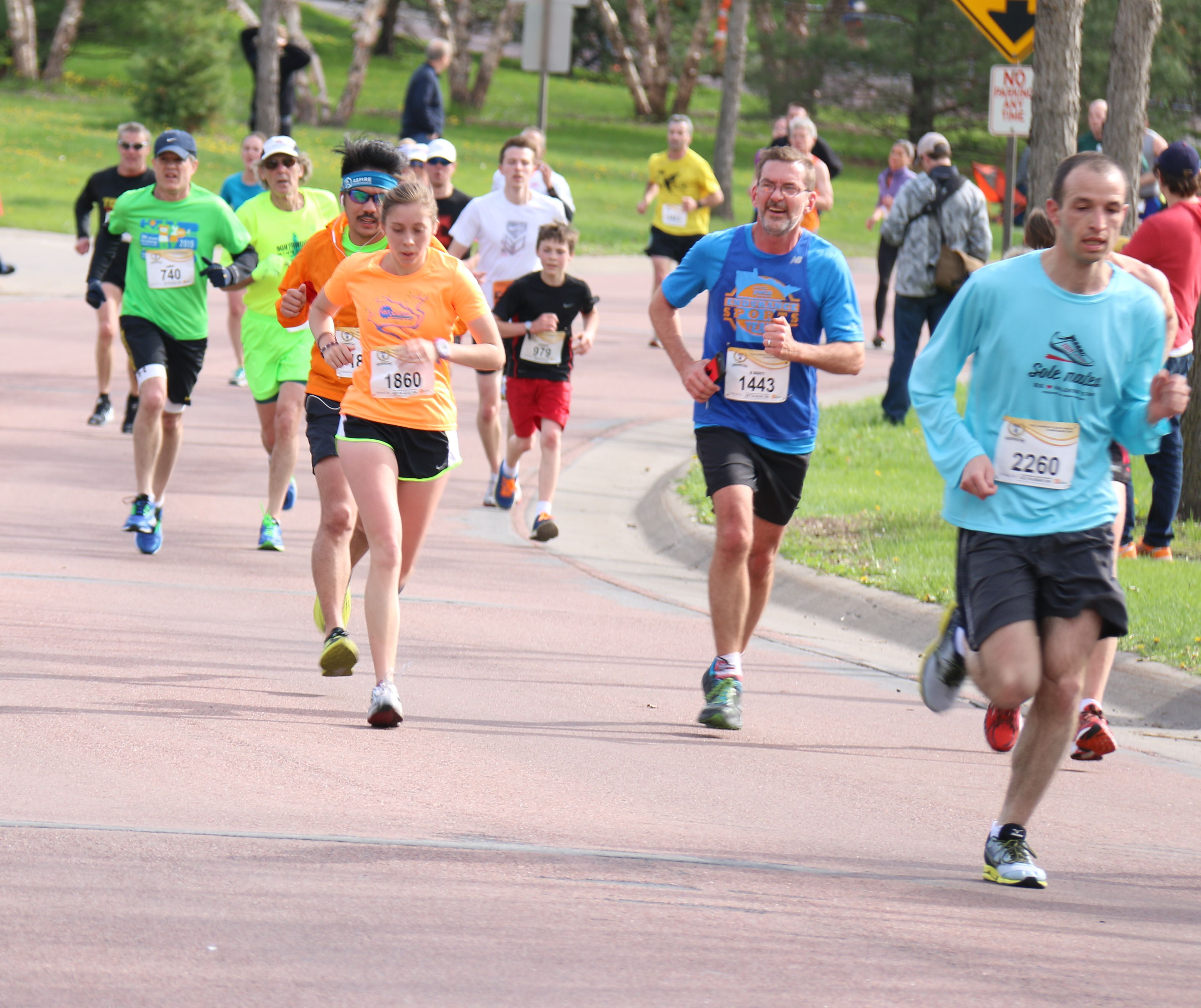 Scott Dibble (politician) running (Bib 1443) in get-in-gear 10k in Minneapolis, April 30, 2016